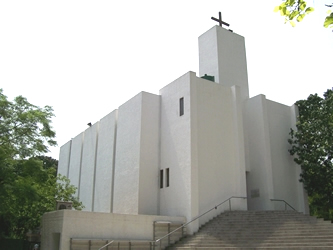 St.Mary's Orthodox Cathedral, New Delhi